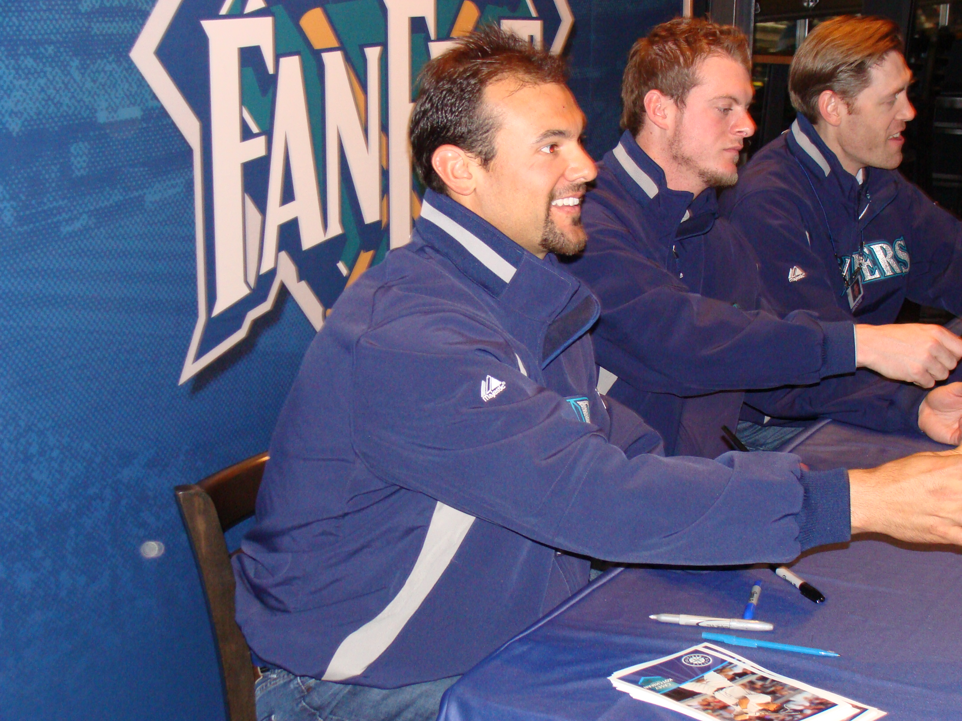 Casey Kotchman and Mark Lowe of Major League Baseball's Seattle Mariners.